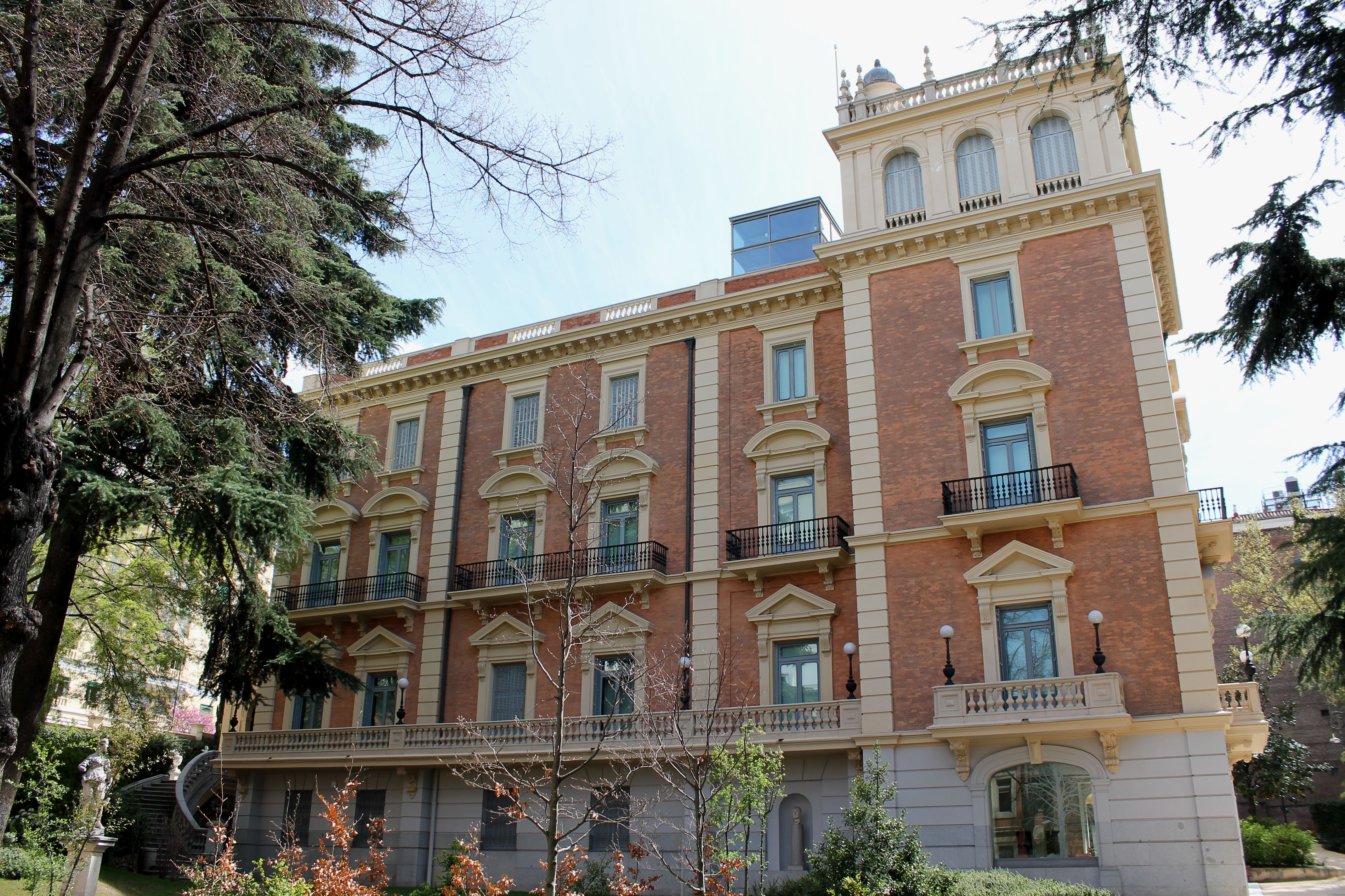 North façade of Lázaro Galdiano Museum in Madrid (Spain).